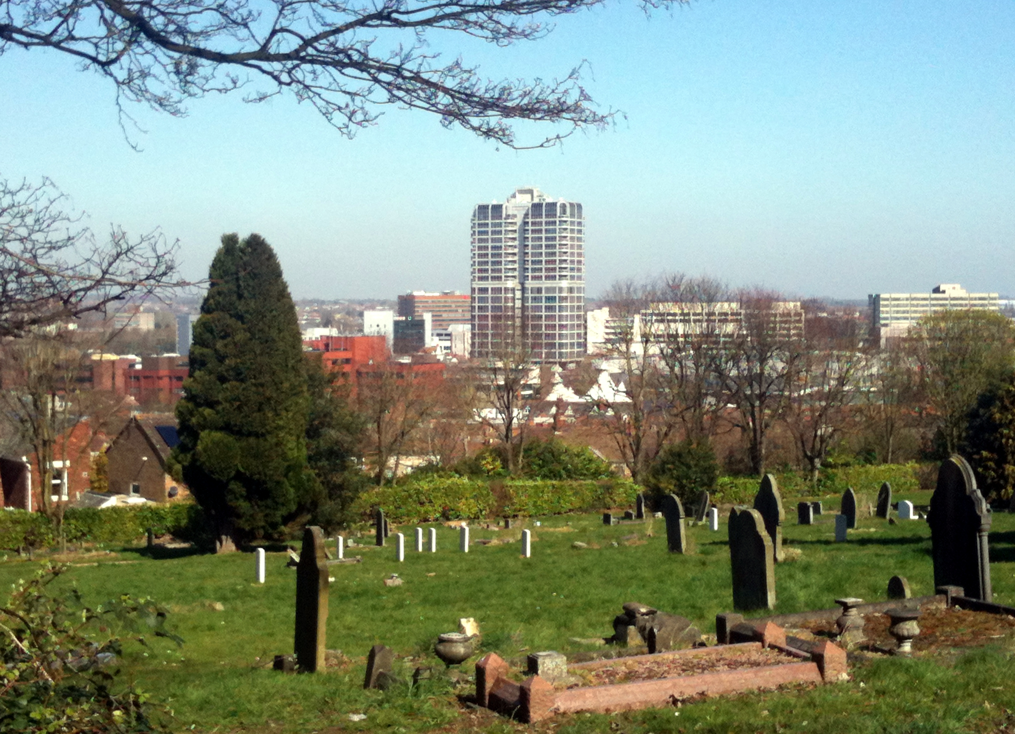 Photo of Swindon town centre, with the David Murray John tower in the centre of the image. Taken from the approximate centre of Radnor Street Cemetery, during the Spring of 2012